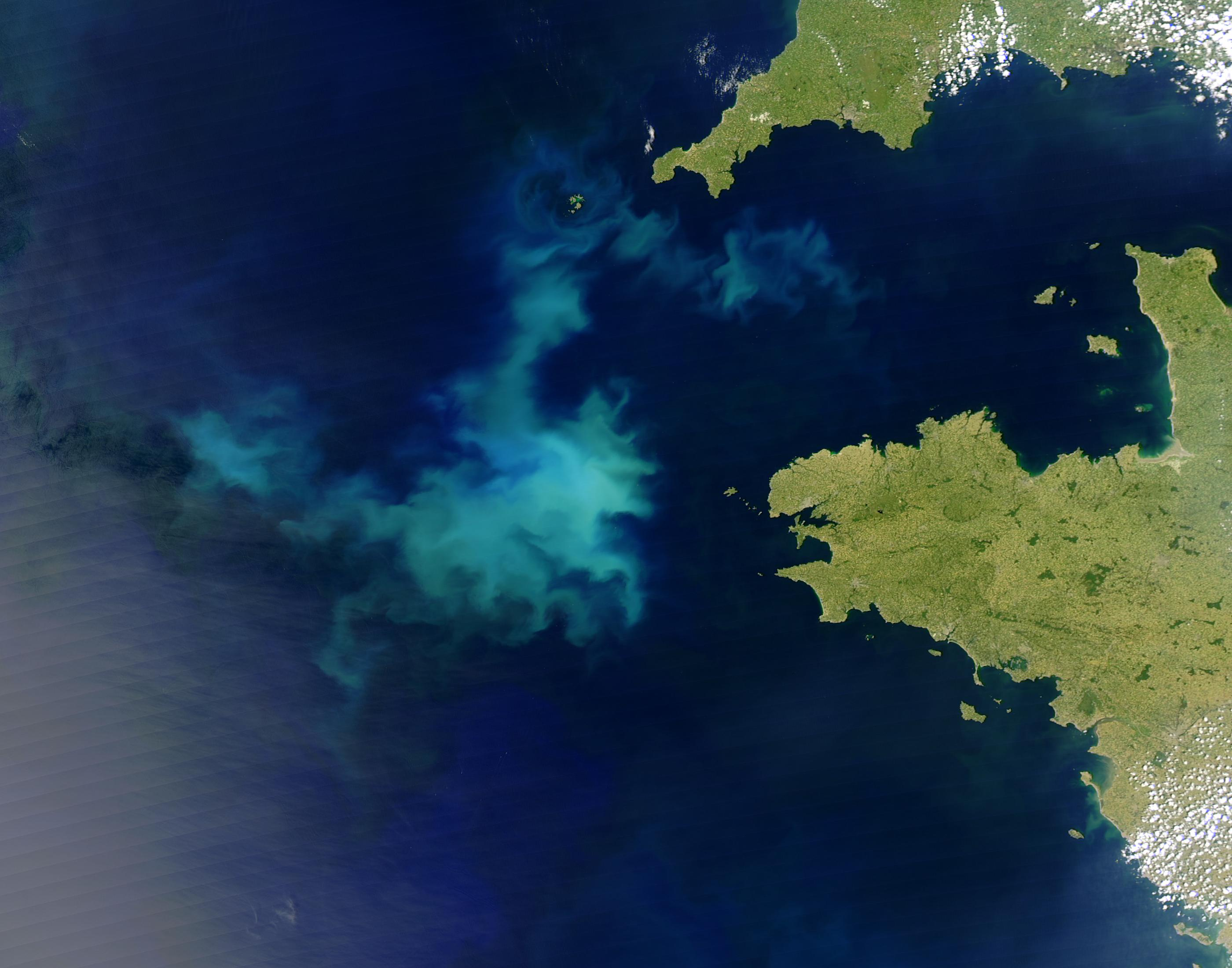 Coccolithophore bloom off Brittany, France. The chalky white exteriors of single-celled marine plants called coccolithophores are coloring the water of the Atlantic Ocean bright blue. Like other types of phytoplankton, coccolithophores are a source of food for marine organisms. Though coccoliths are small, they often form large, concentrated blooms that are visible from space. On June 15, 2004, the Moderate Resolution Imaging Spectroradiometer (MODIS) on NASA’s Aqua satellite captured this image of a bloom off the coast of Brittany, France. The bloom had been developing for a few days before this image was taken.